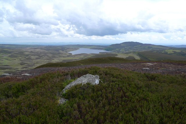 Top of Spurn Hill A rock marks the 480m top of Spurn Hill. This view is to Loch Benachally. The top of Spurn Hill is flat, but there are crags all round the top. It's possible to scramble up in several places, but only to the south-east is there a slope that is easy to walk back down.